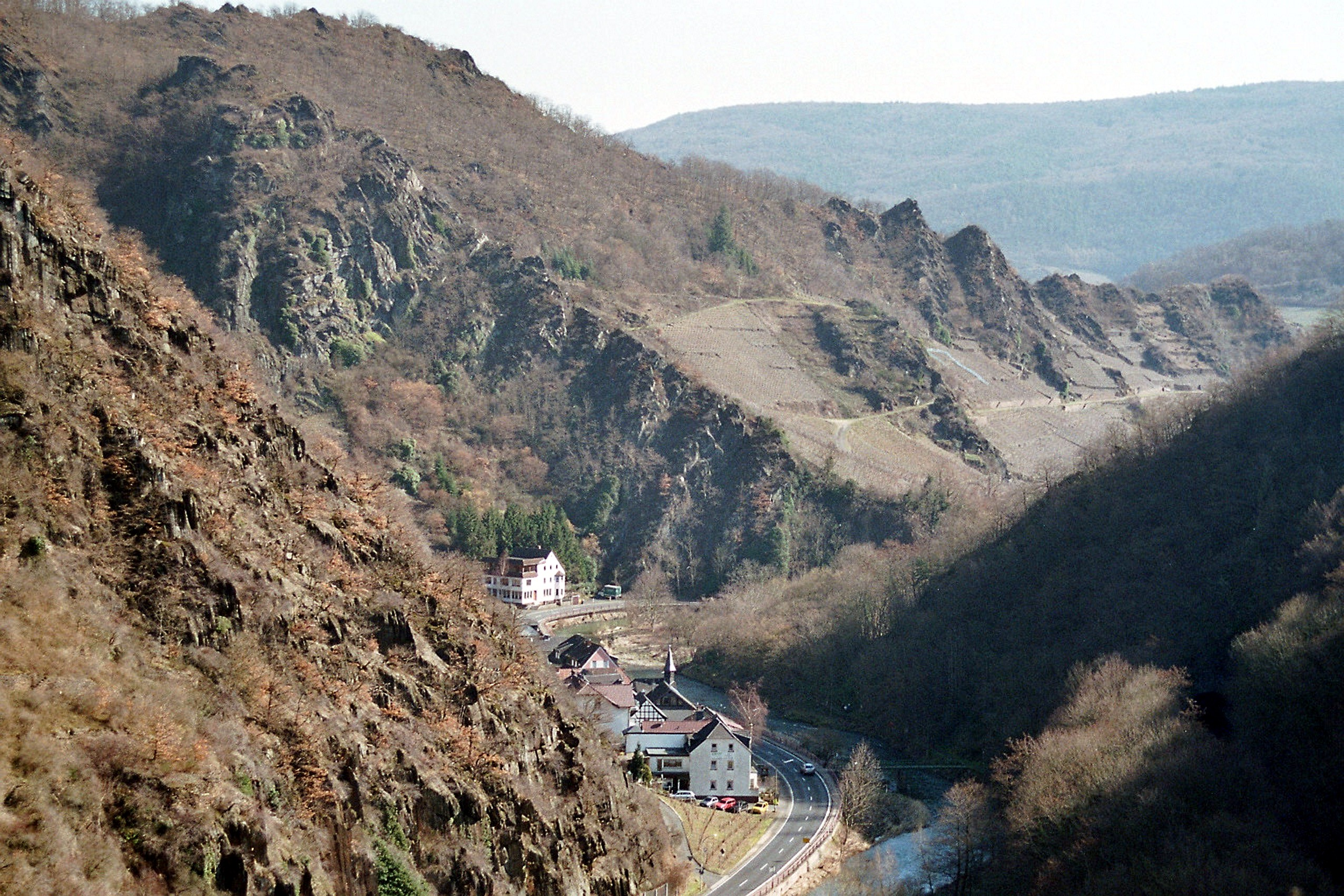 Altenahr, view to Reimerzhofen